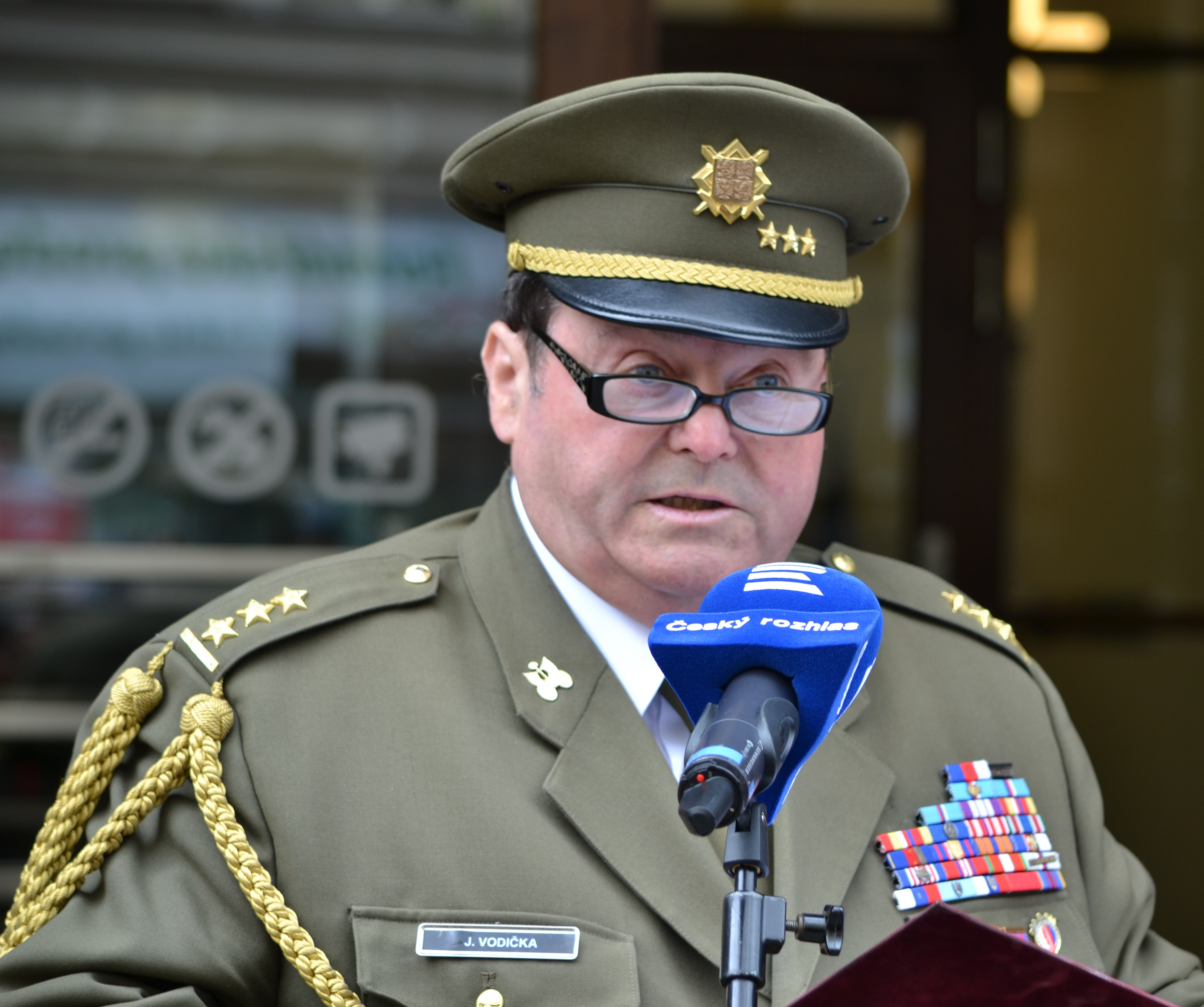 Jaroslav Vodička, Chairman of the Czech Union of Freedom Fighters